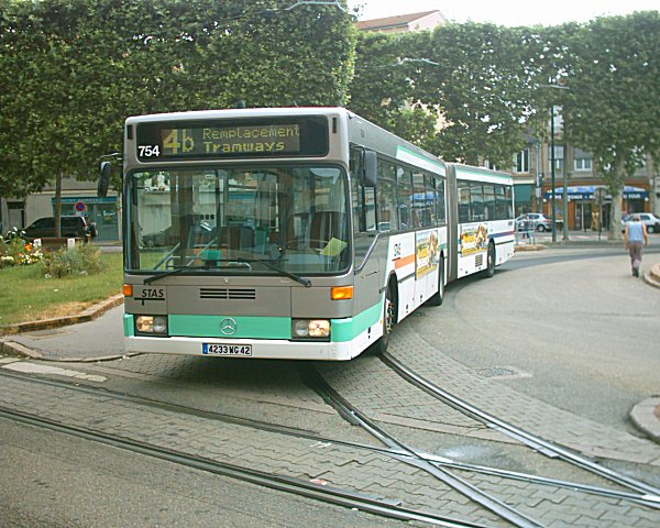 STAS articulated Mercedes bus at La Terrasse.